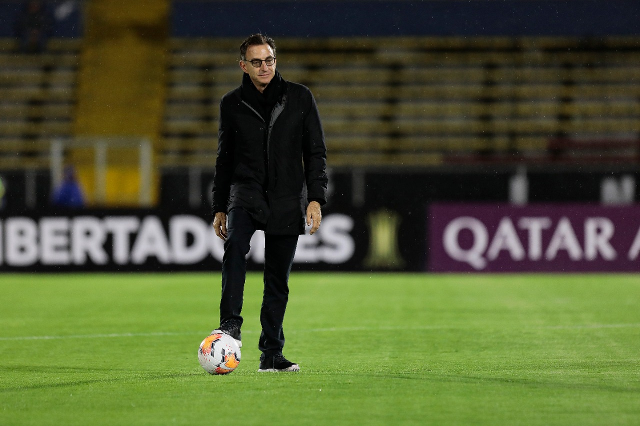 Michel Deller. Independiente del Valle s Manager